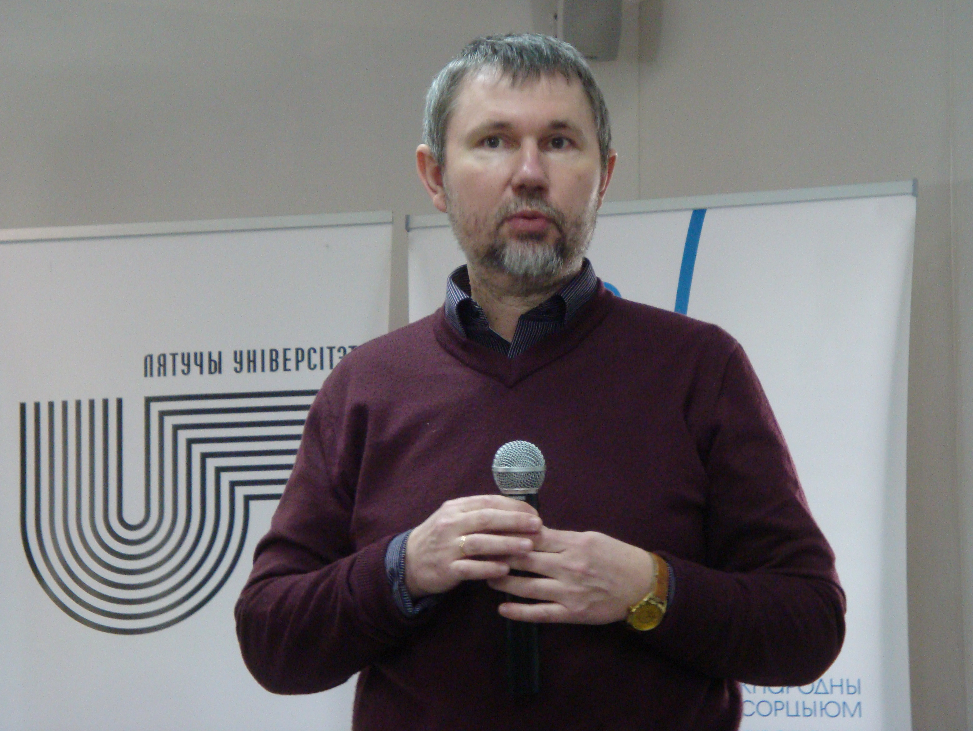 Ihar M. Babkow (born 1964 AD) -- a belorussian philosopher and writer, during a lecture about Ryhor Baradulin (1935-2014)